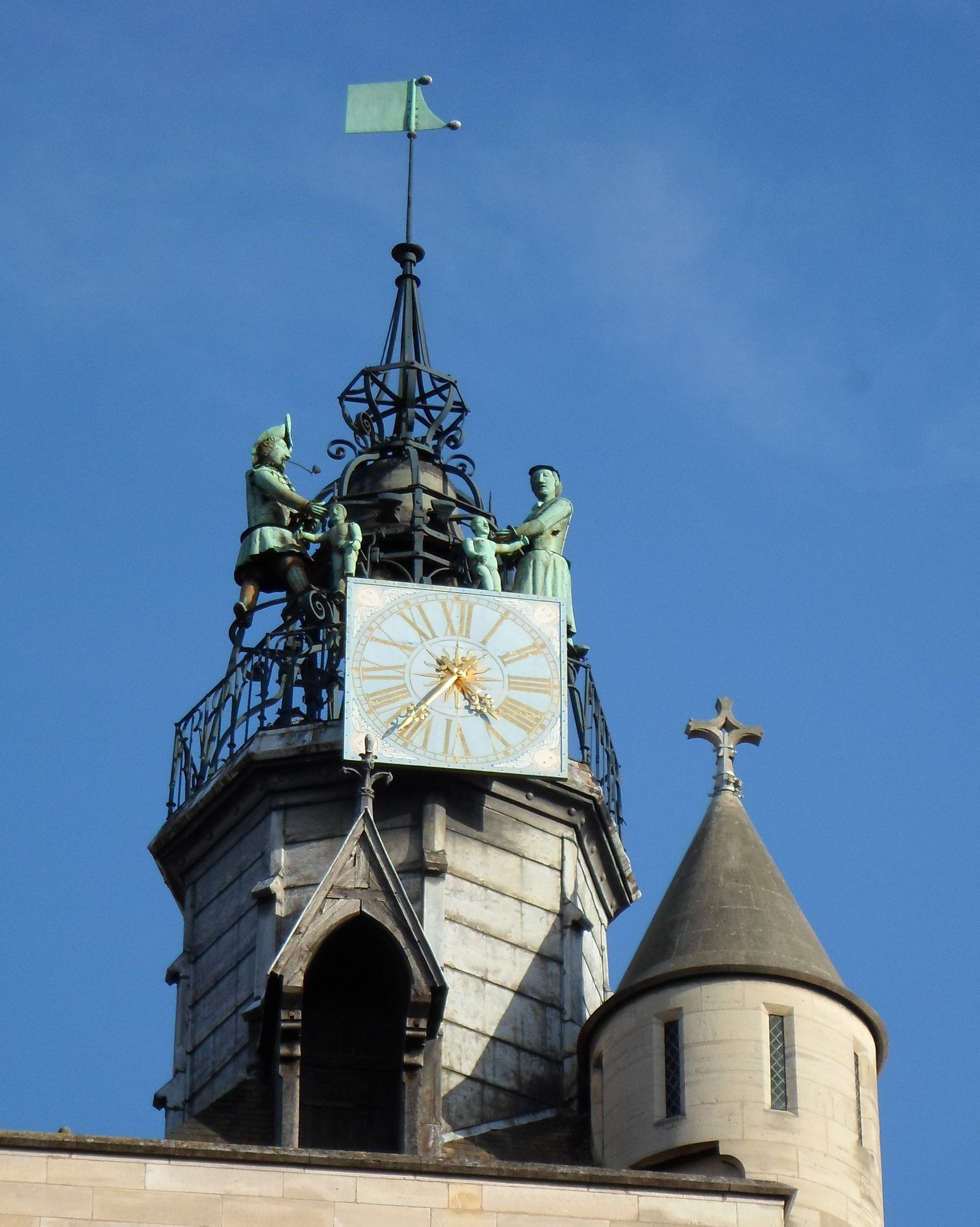 Dijon, Burgundy, France